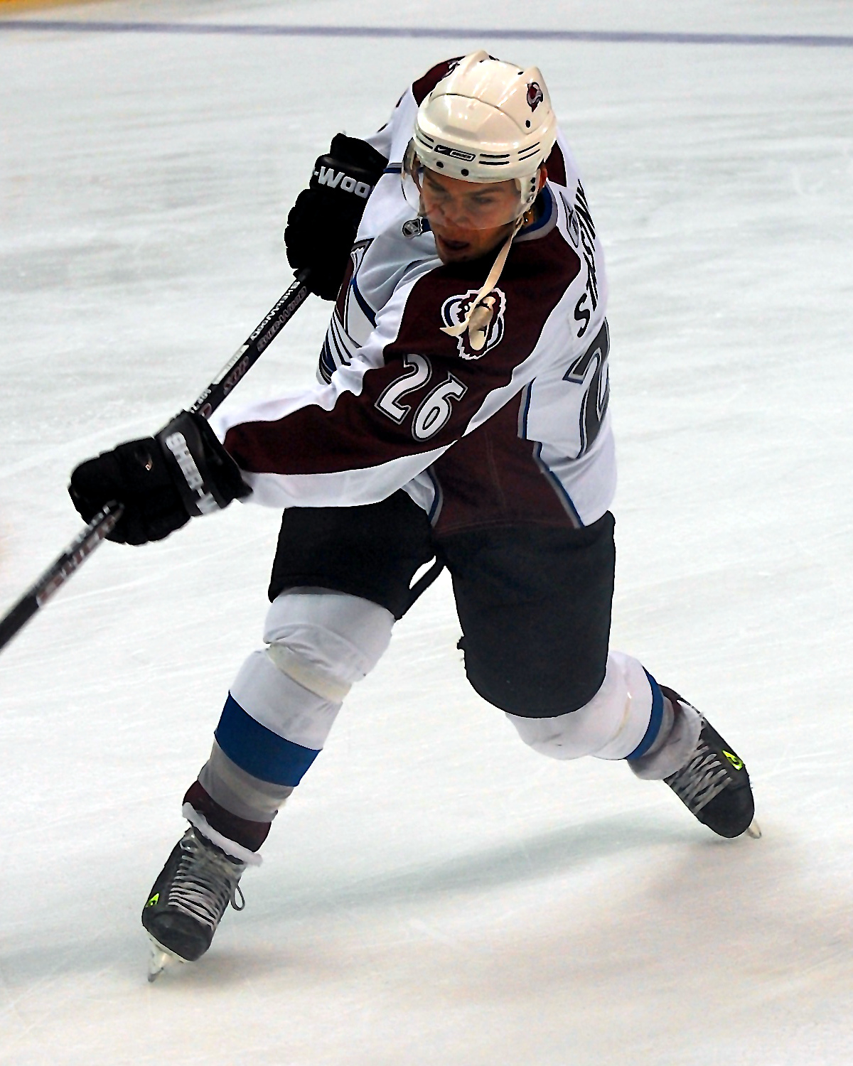 Paul Stastny during the warmp-up at the Thrashers-Avalanche game in Atlanta on 03/11/2008.